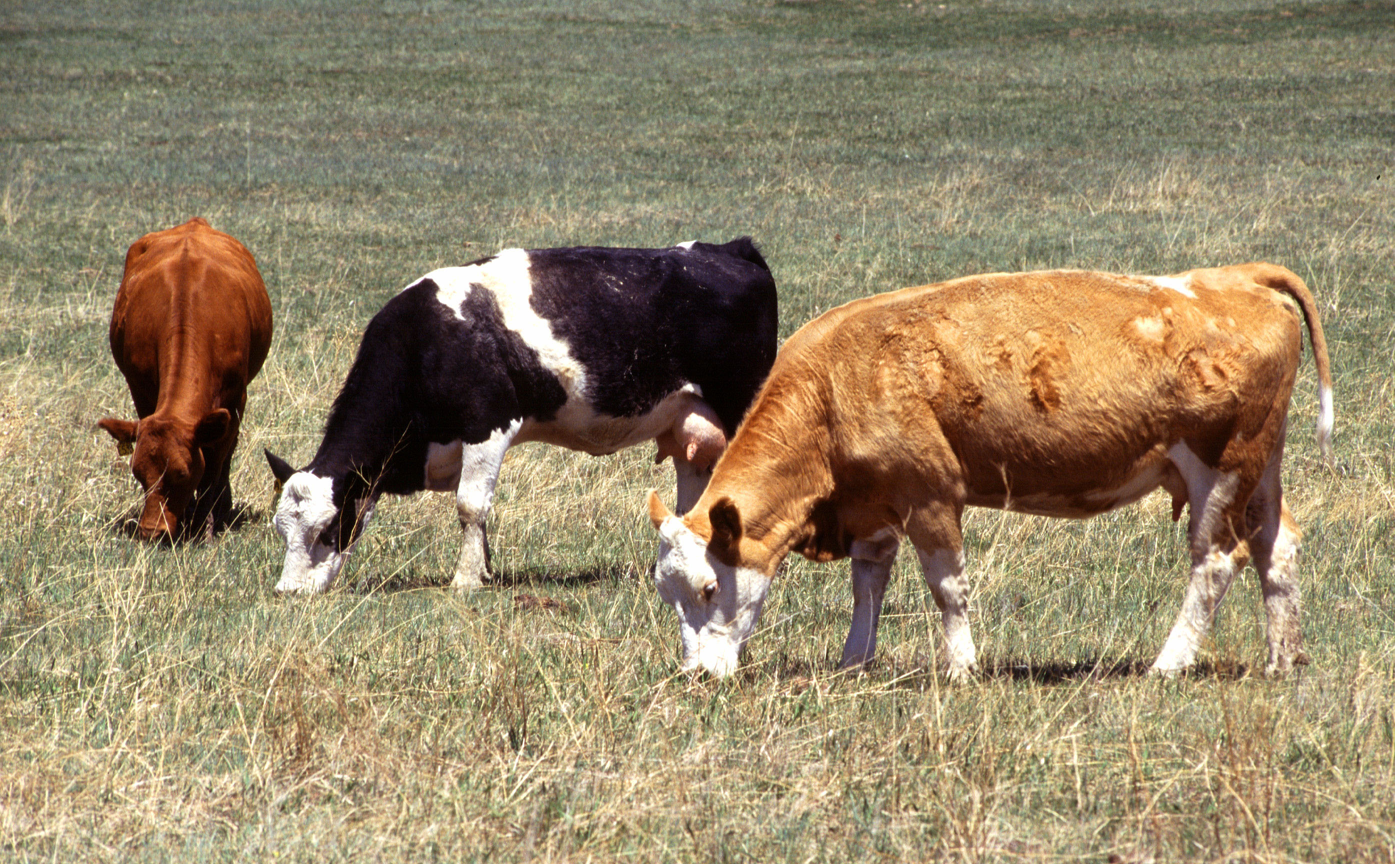 Original description: Dryland grazing on the Great Plains in Colorado. Each cow on a pasture can emit about 350 liters (230 grams) of methane per day.